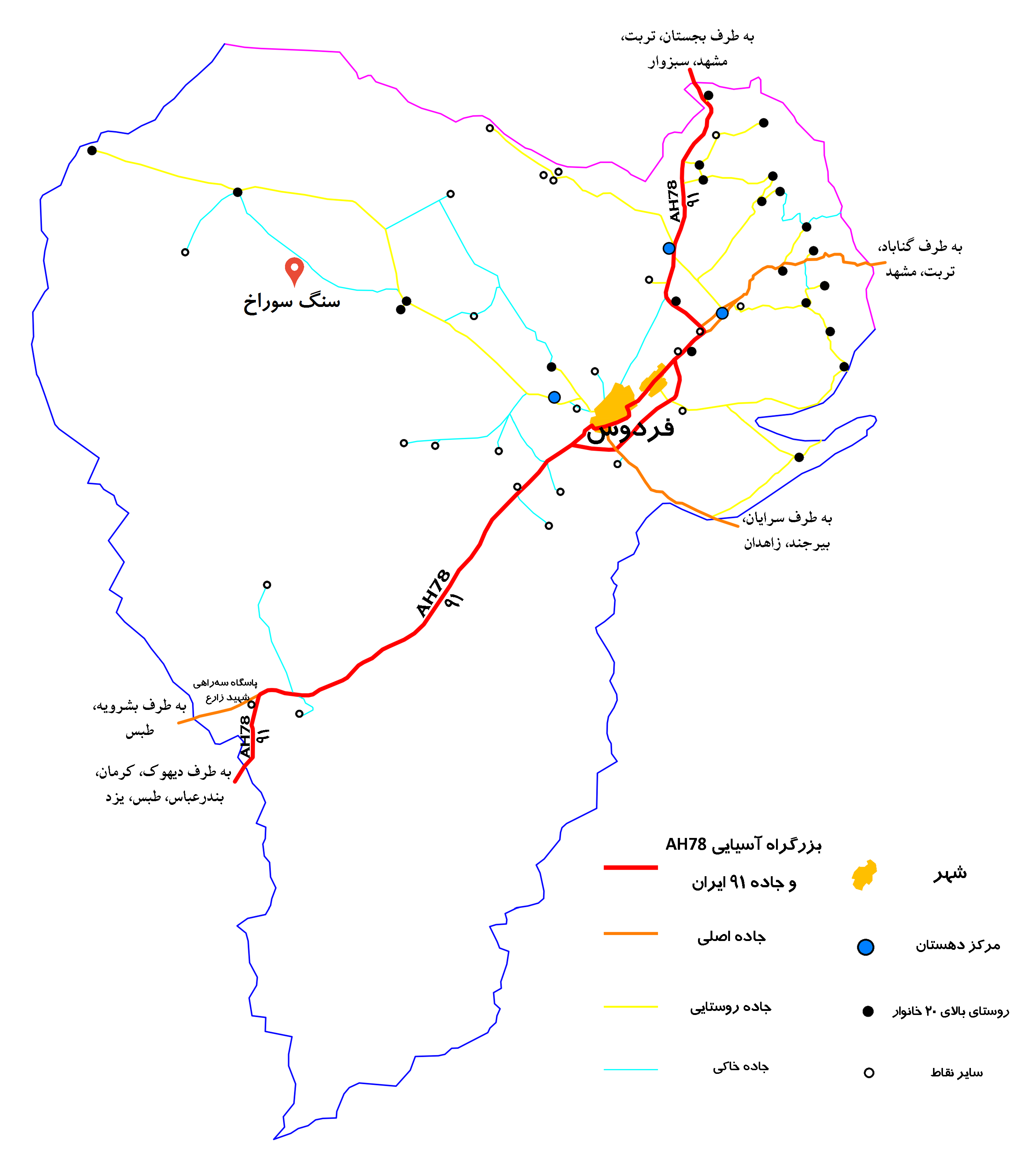 Location of Ferdows Hole-in-the-Rock on the map of Ferdows County